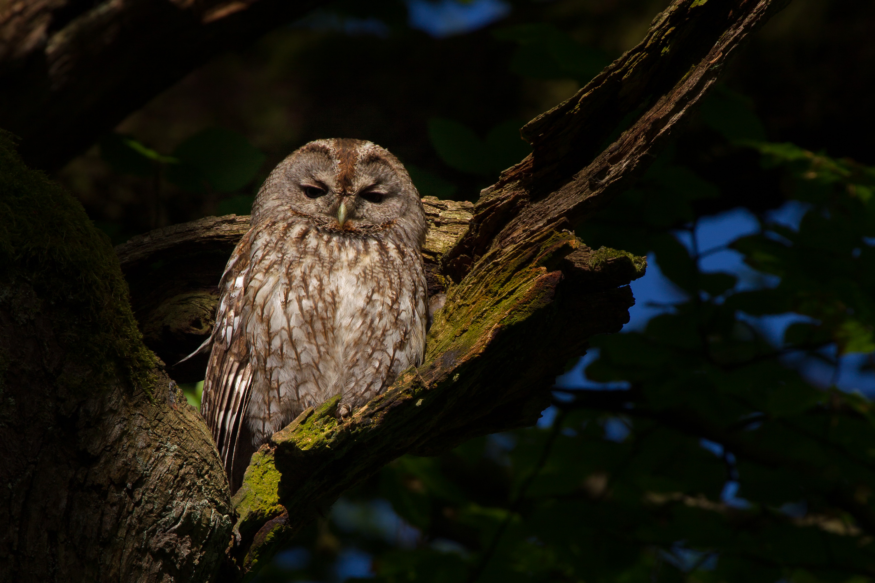 Tawny Owl Strix aluco, Marburg, Germany